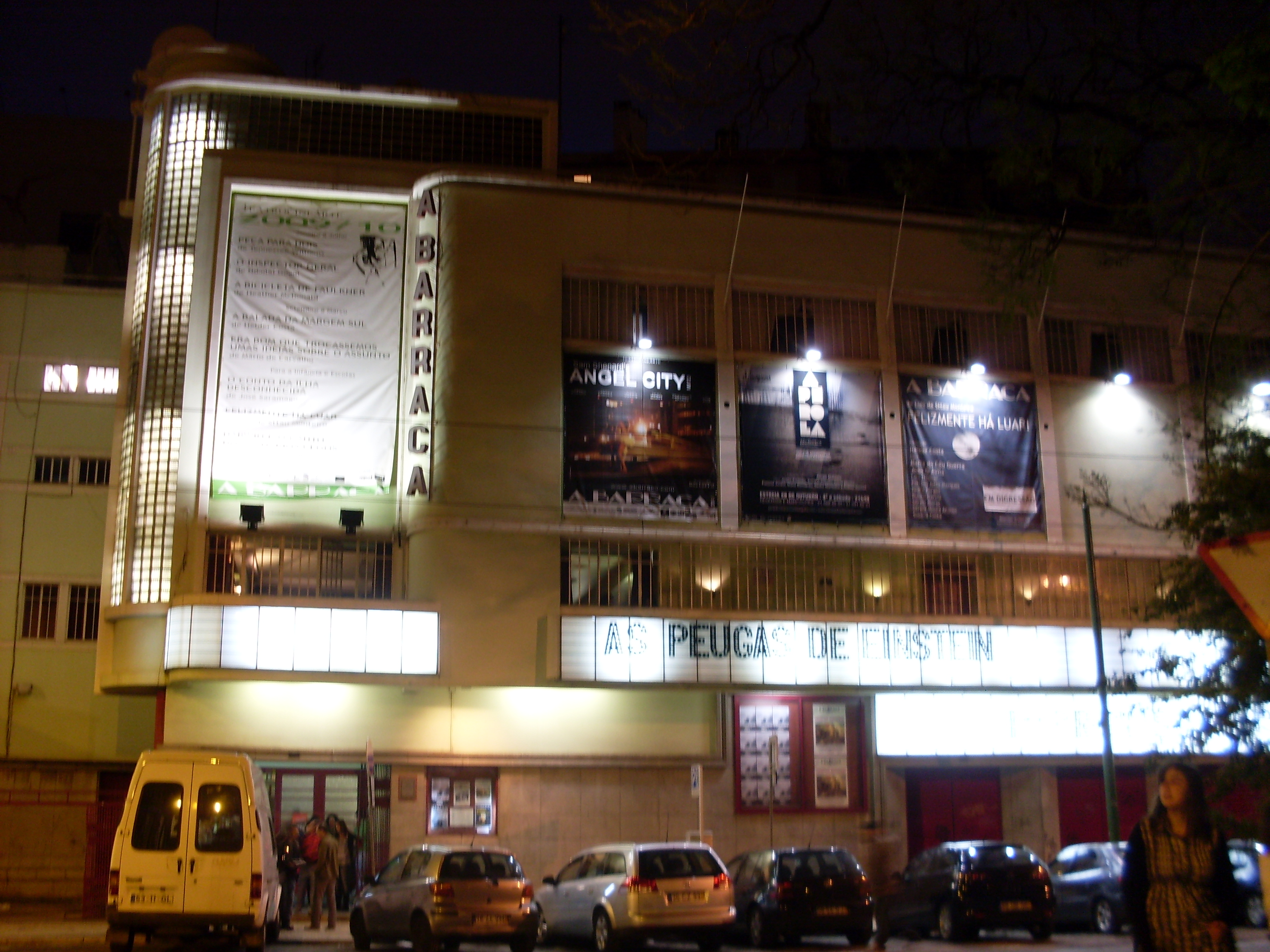 Theater Cinearte, in Lisbon, home of theater company "A Barraca"